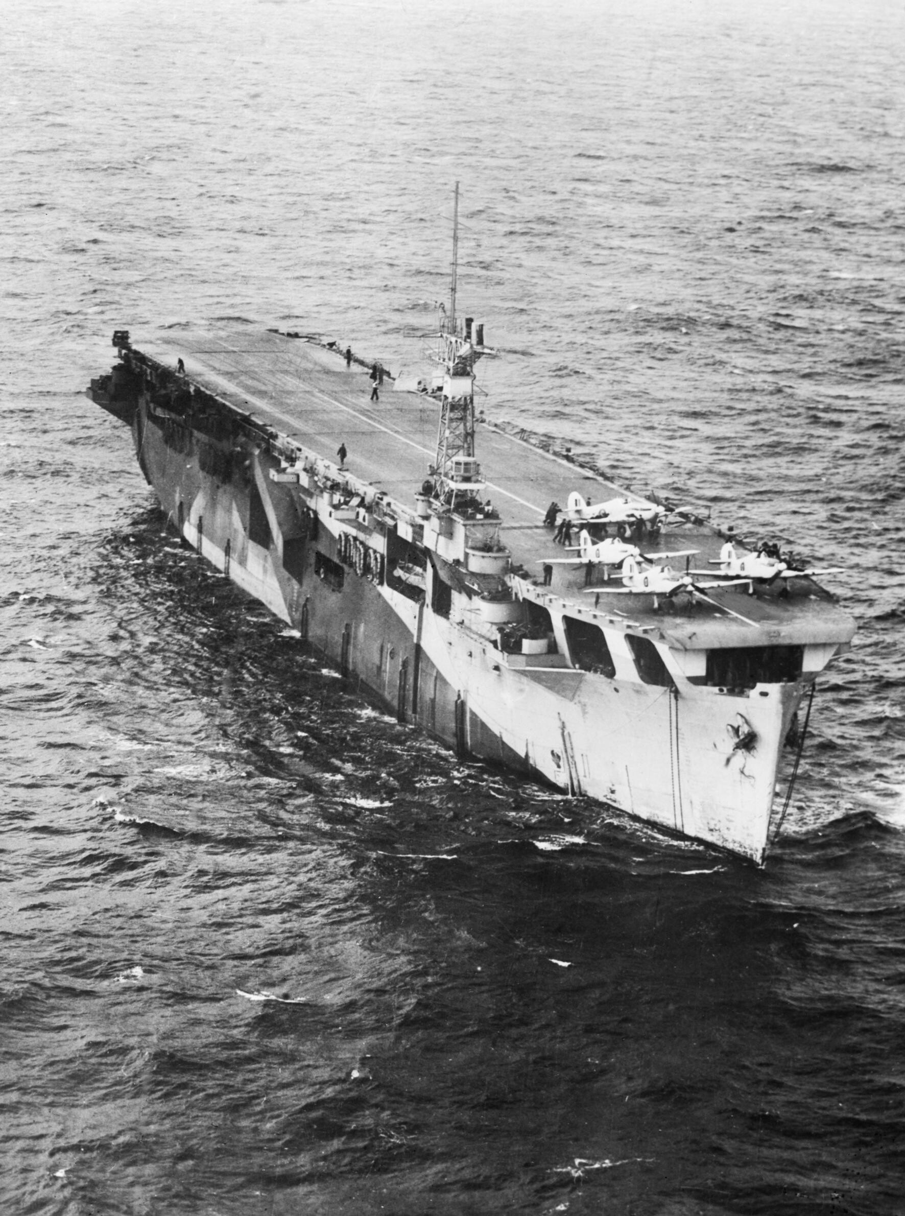 Royal Navy escort aircraft carrier HMS Nairana under way with Sea Hurricanes on her foredeck. She was transferred to the Royal Netherlands Navy in 1946 and was renamed HNLMS Karel Doorman (QH1).